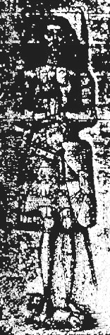 Baldwin V, Count of Flanders